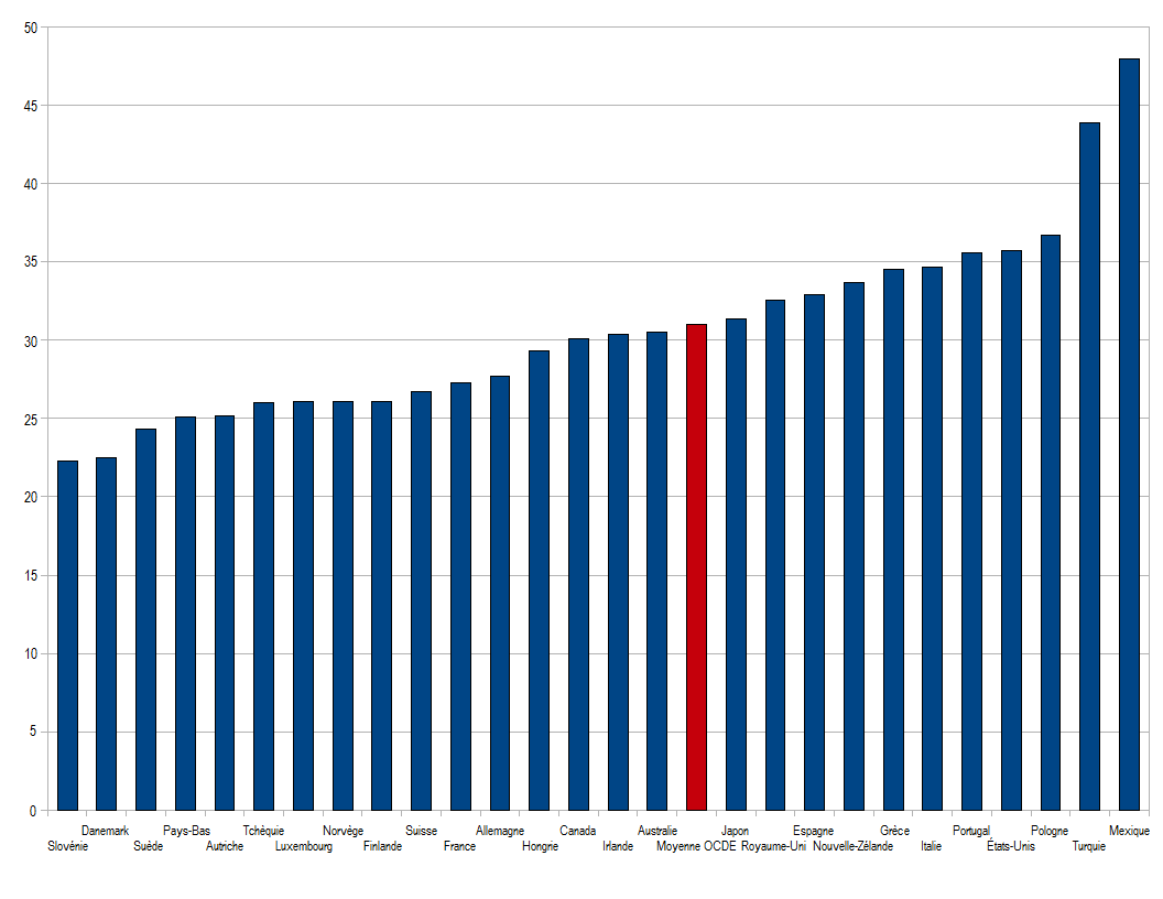 Inequalities in disposable household income in OECD countries as measured by the Gini coefficient in 2000. OECD data.